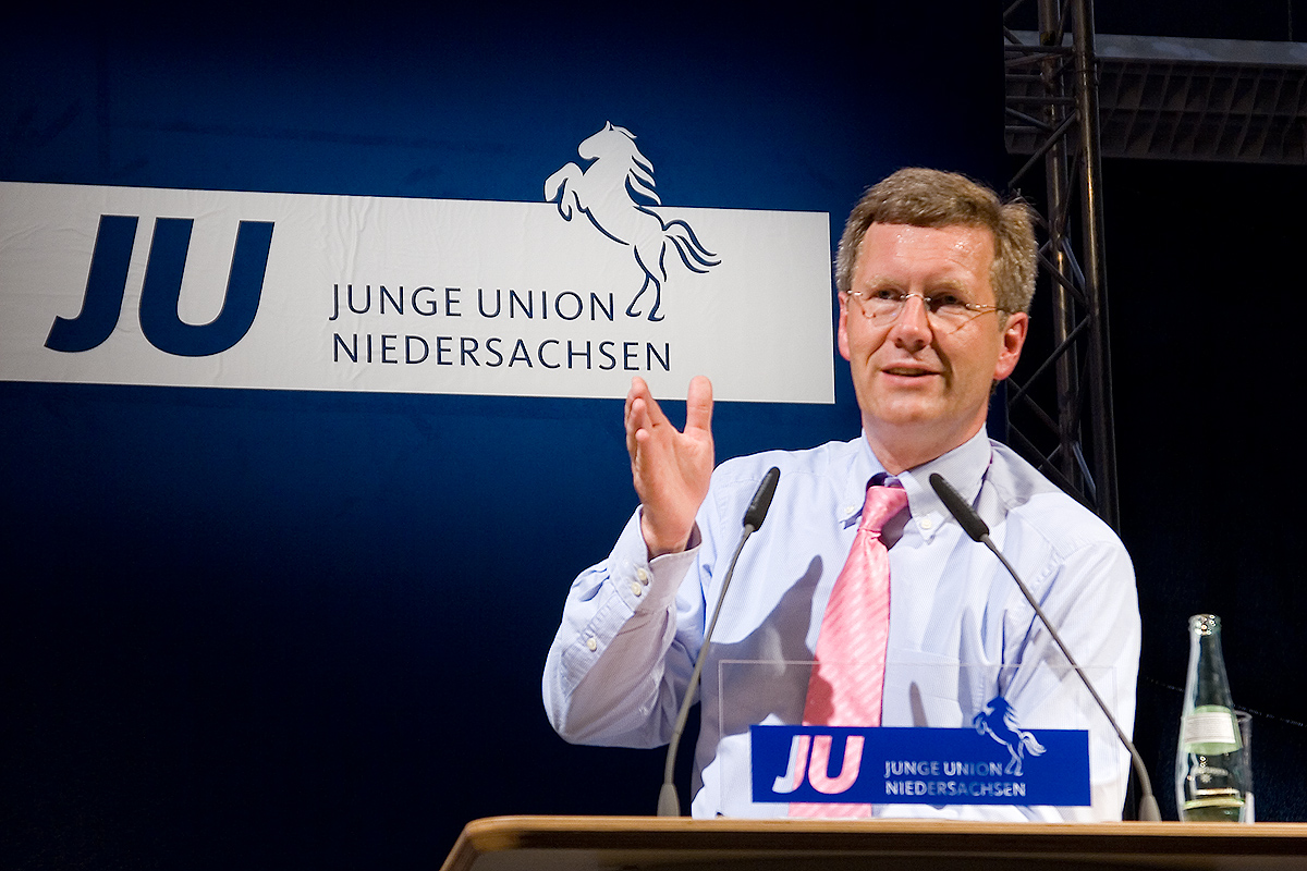 Christian Wulff (born June 19, 1959 in Osnabrueck) is a German politician (Christian Democratic Union of Germany) and Premier of Lower Saxony.